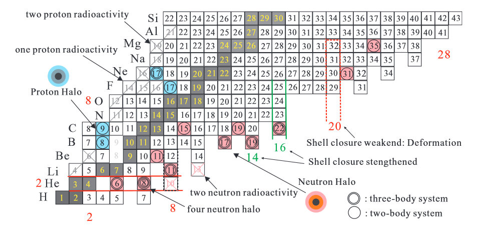 Section of the chart of the nuclides showing the shell structure evolution. Some exotic nuclei with nuclear halos and skins are denoted. The proton unbound nuclei of interest are also shown.